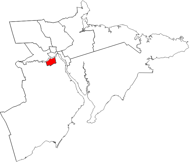 The riding of Riverview in relation to other southeastern New Brunswick electoral districts